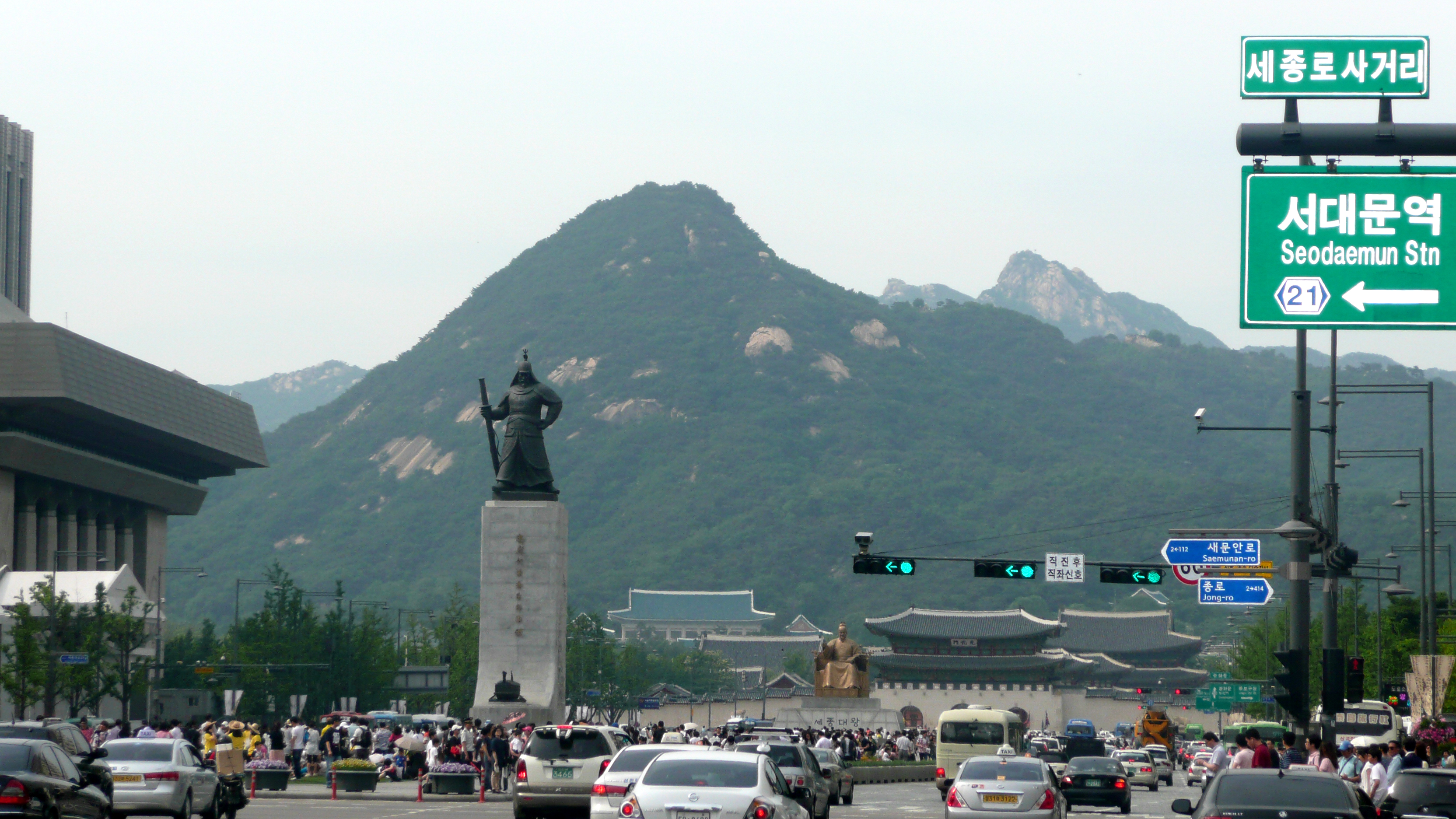 The Statue of Yi Sunsin, Sejongro, Jongrogu, Seoul, S.Korea